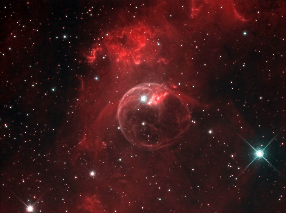 Image of the Bubble Nebula (NGC 7635) taken by Robert J. Vanderbei (